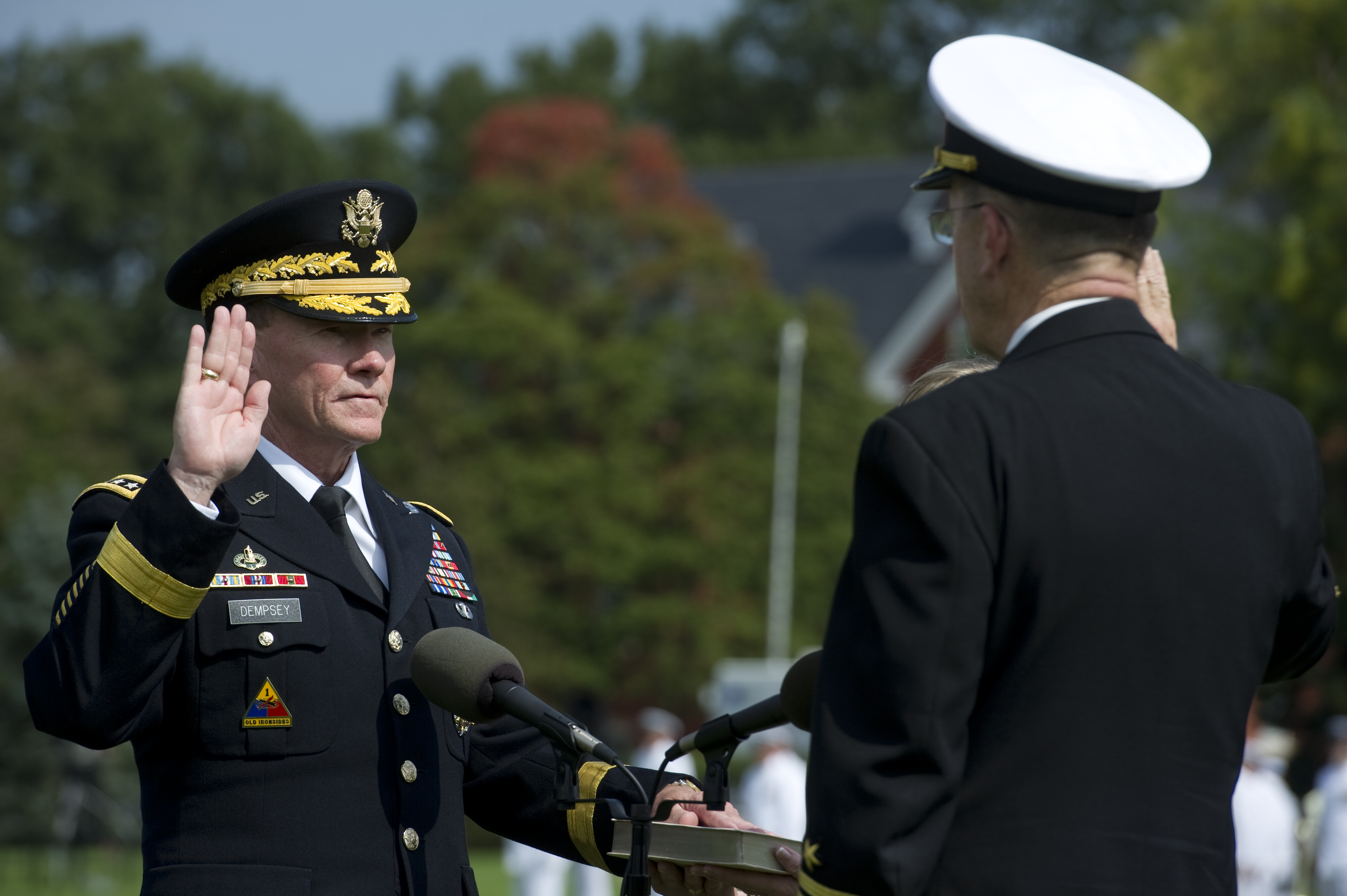 U.S. Navy Adm. Mike Mullen swears in U.S. Army Gen. Martin E. Dempsey as the 18th Chairman of the Joint Chiefs of Staff at the change of responsibility ceremony, Summerall Field, Joint Base Myer-Henderson Hall, Va